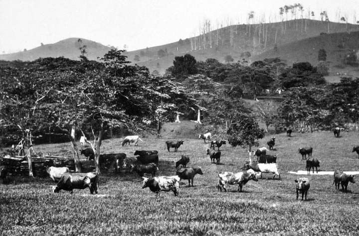 Illawarra Dairy Cattle on Mr G Grevett's farm at Kin Kin.